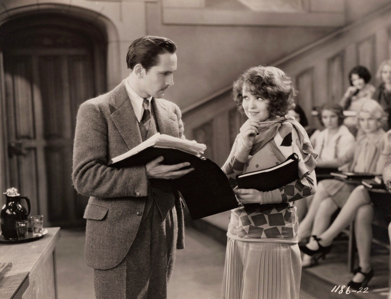 Fredric March and Clara Bow in The Wild Party (1929) - cropped screenshot.